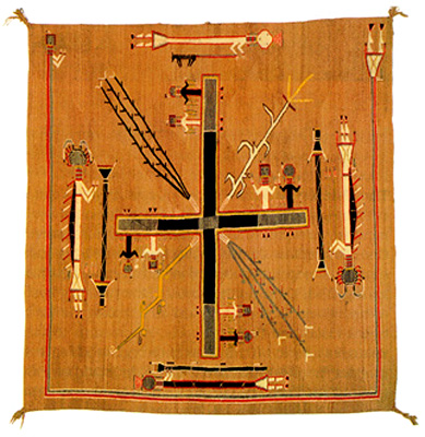 Navavo weaving made by Hosteen Klah (1867–1937). Collections of Wheelwright Museum, Santa Fe NM. Not on public display (2017)